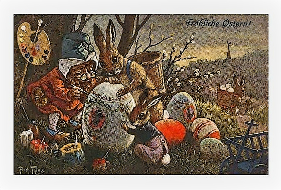 Easter postcards